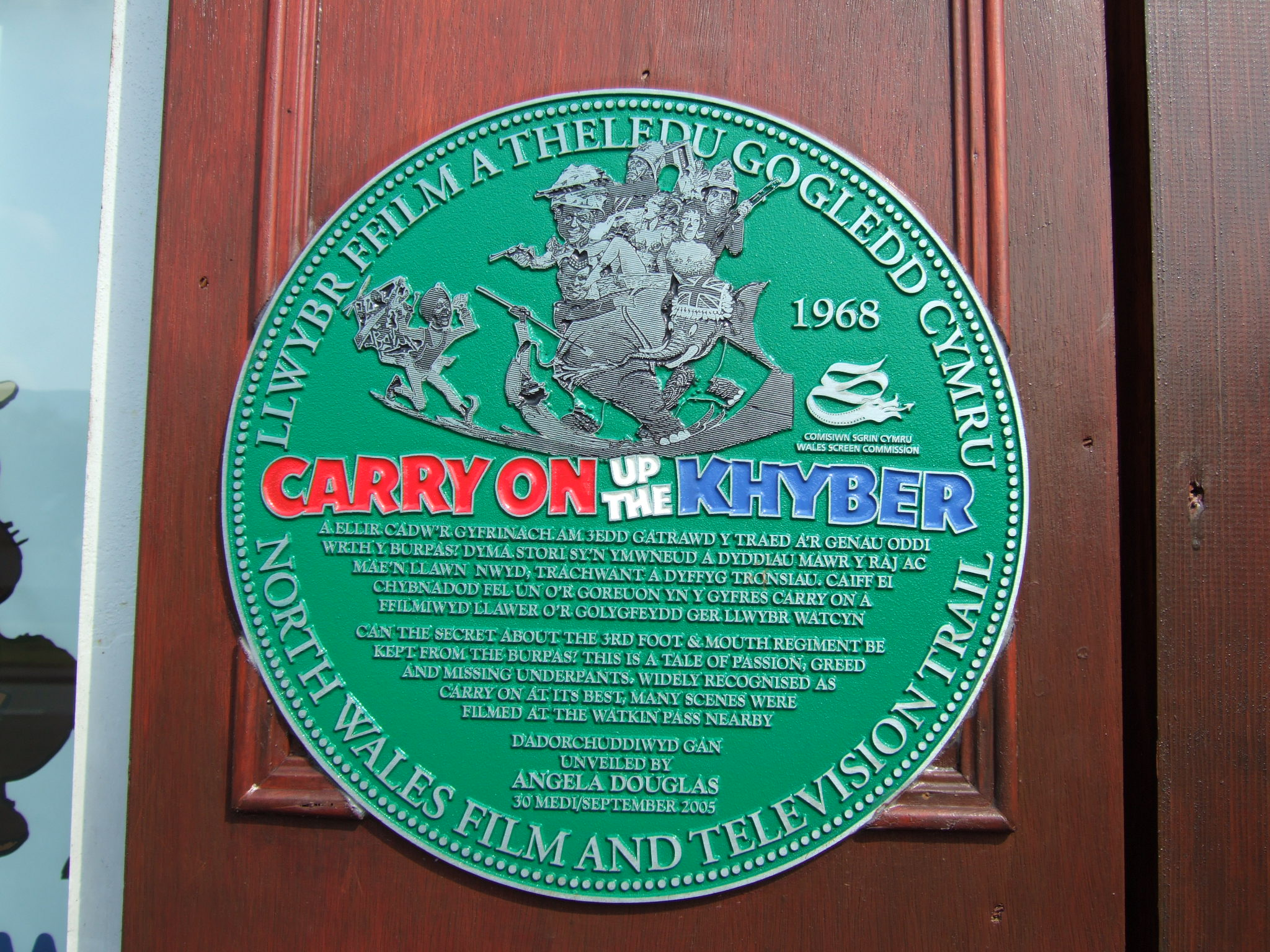 A Carry On up the Khyber plaque in Llanberis, Gwynedd, Wales.